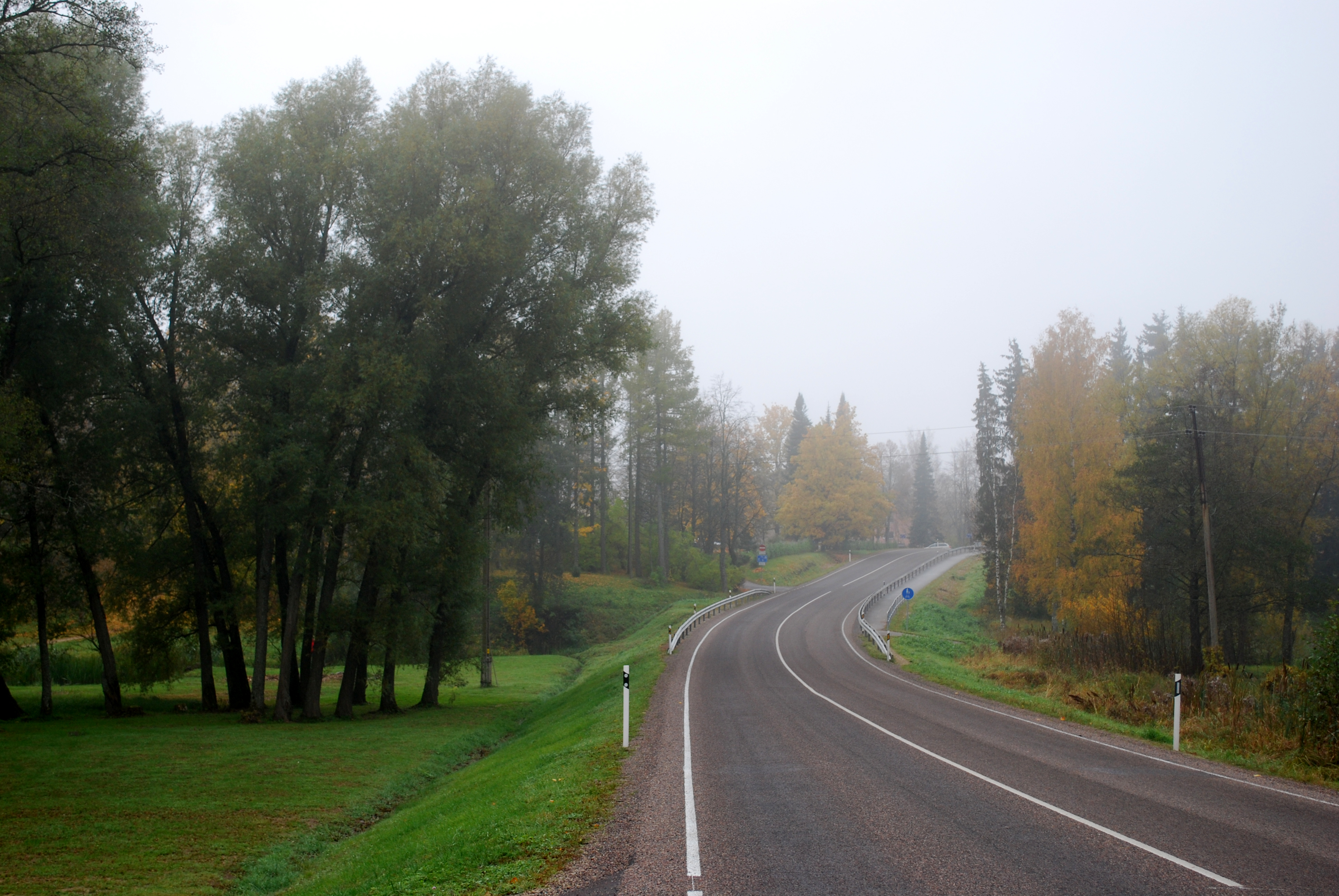 Väimela